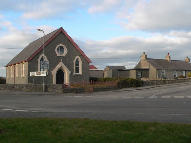 Trefor, Anglesey. A view at the cross roads in Trefor (pronounced Trevor) a junction of the B5109 and the B5112.